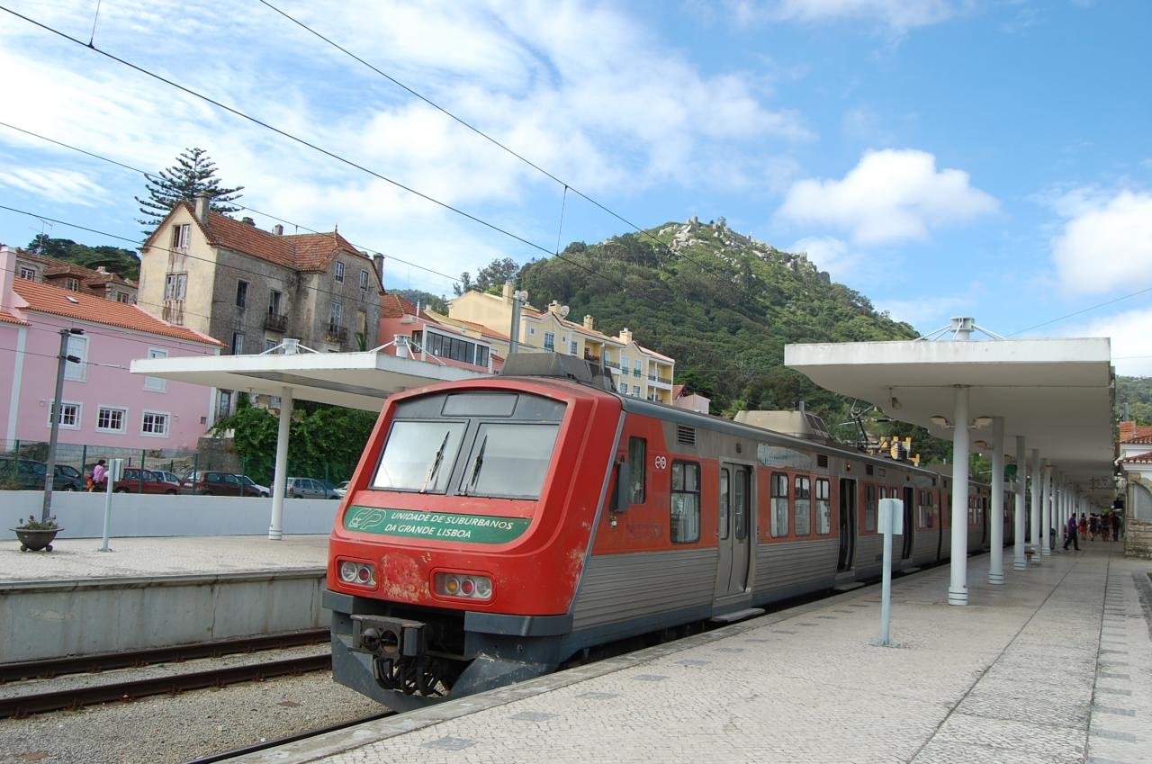 Train back to Lisbon from Sintra